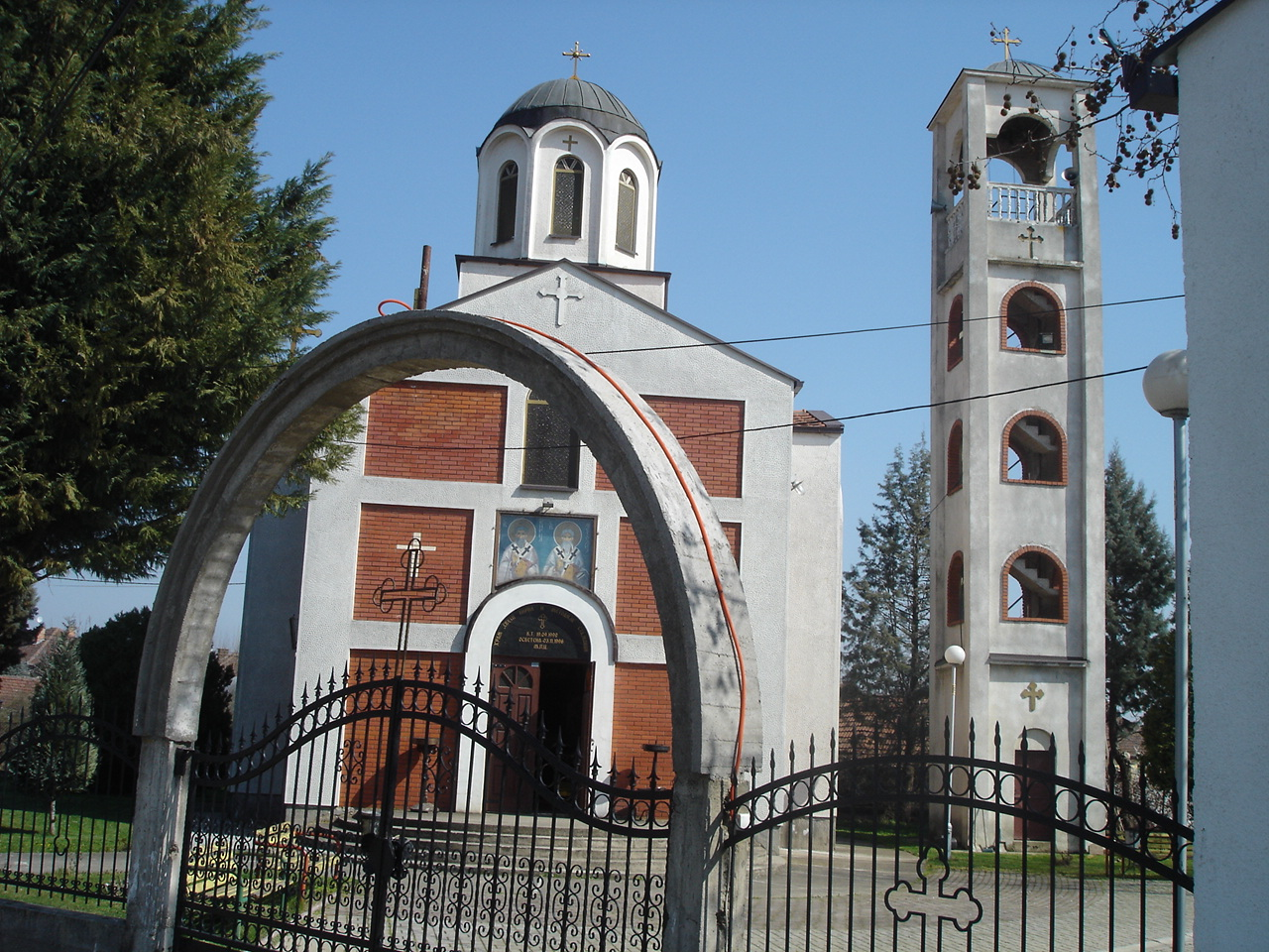 The church in Stajkovci, Macedonia